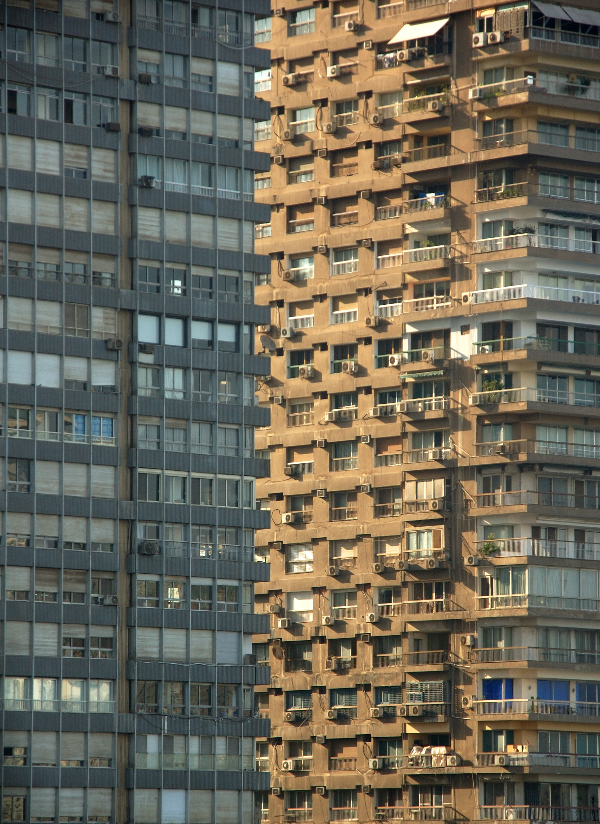 This picture plays tricks with you. If you look at the area where the buildings meet, it's sometimes hard to tell which is in the foreground and which in the background...